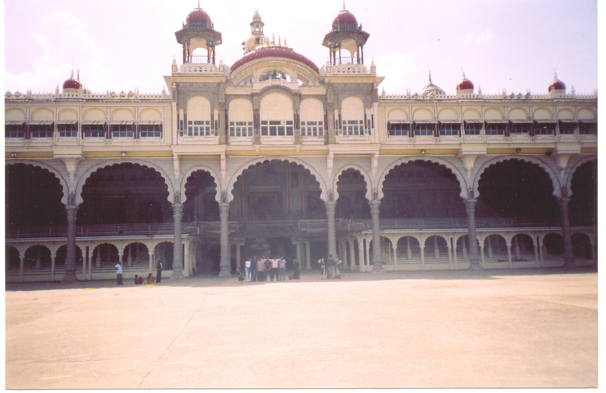 AS view of Mysore Palace designed by Henry Irwin